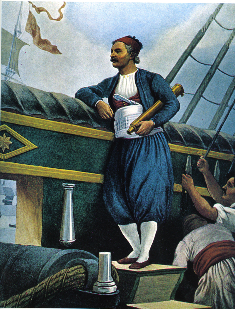 Andreas Miaoulis beats the Turkish fleet at Kos